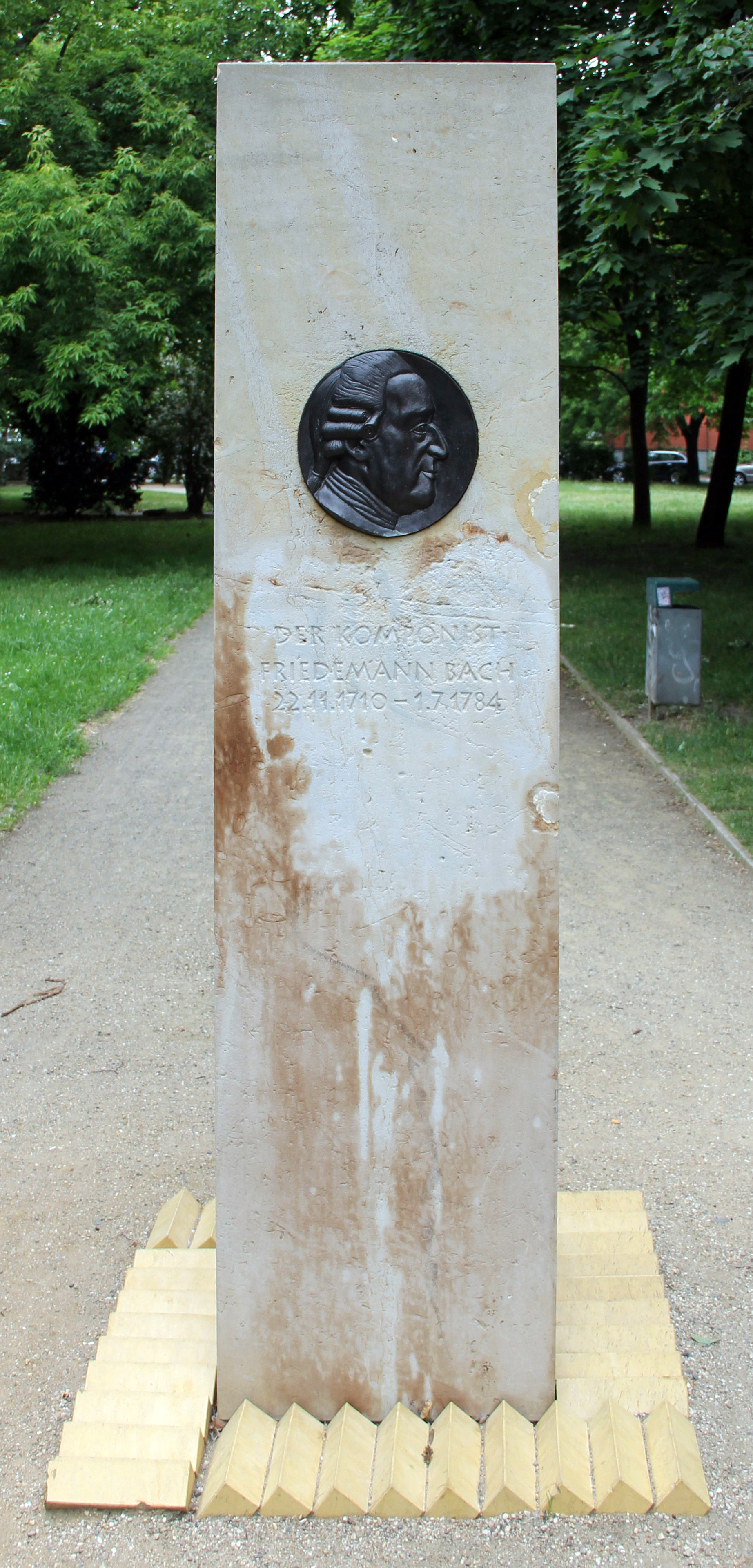 Steles, Wilhelm Friedemann Bach, Alte Jakobstraße 56, Berlin-Mitte, Germany